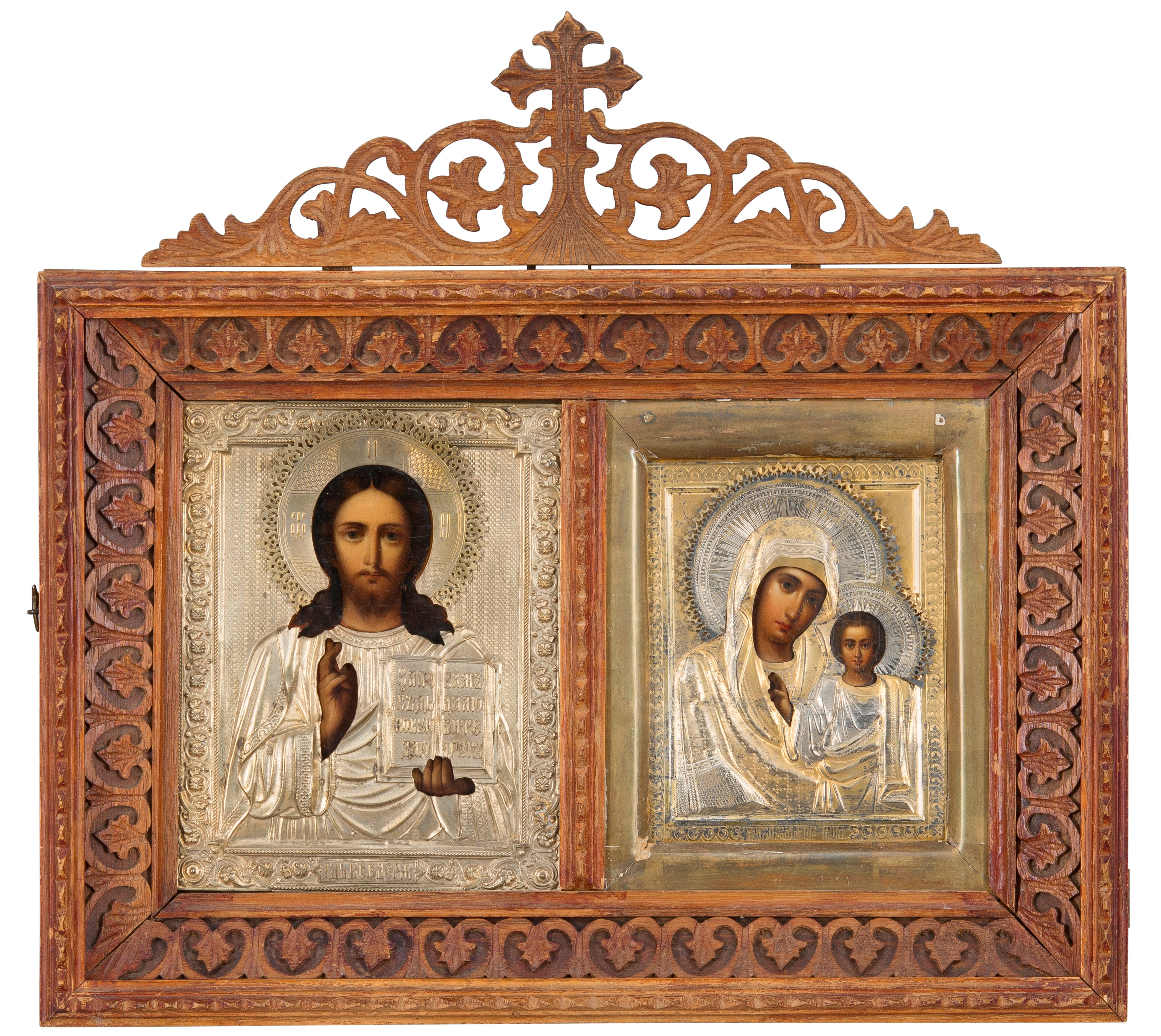 Wedding Icon. Christ and Virgin of Kazanskaya. Russia early 20th century. 34x21 cm.